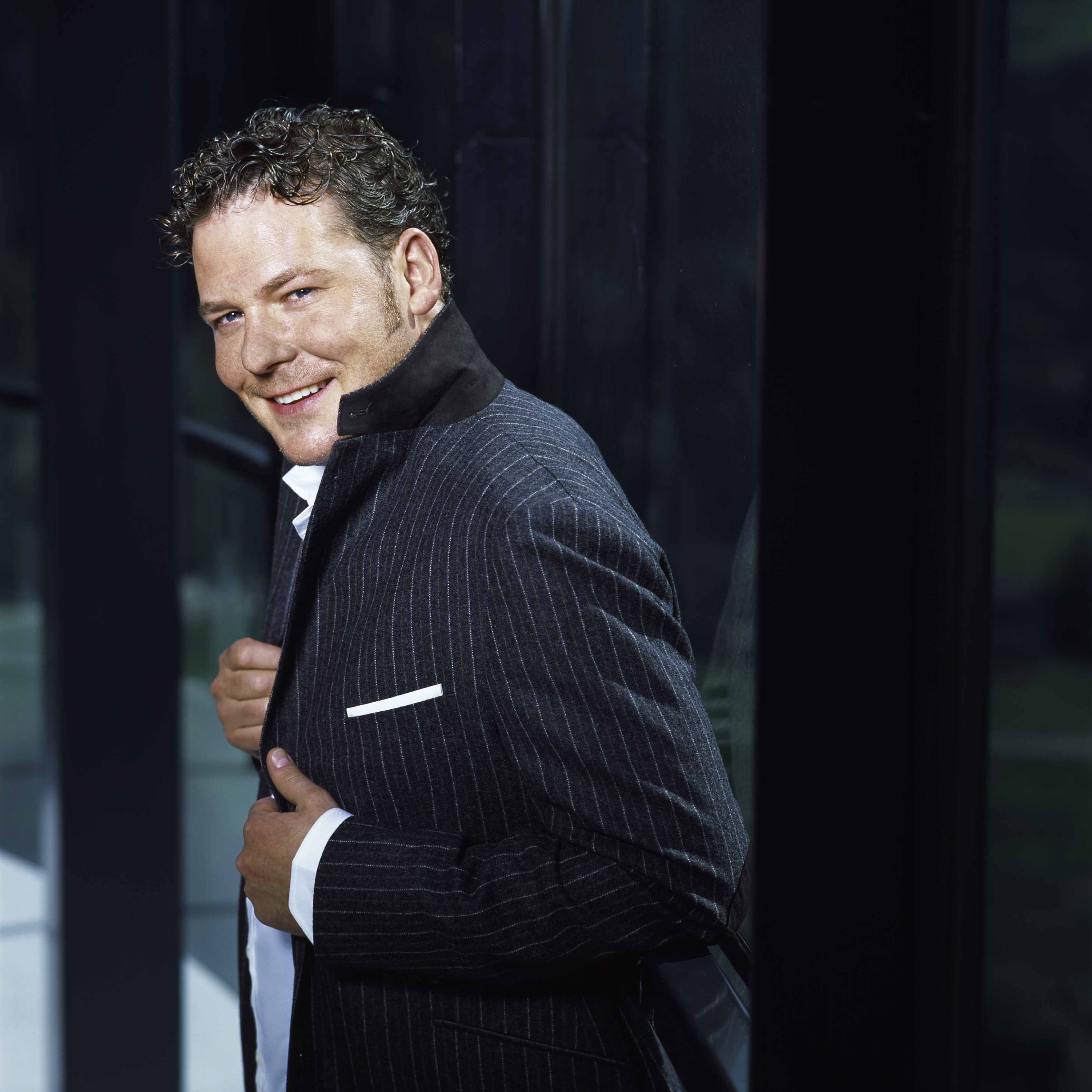 Photo by Johannes Ifkovits